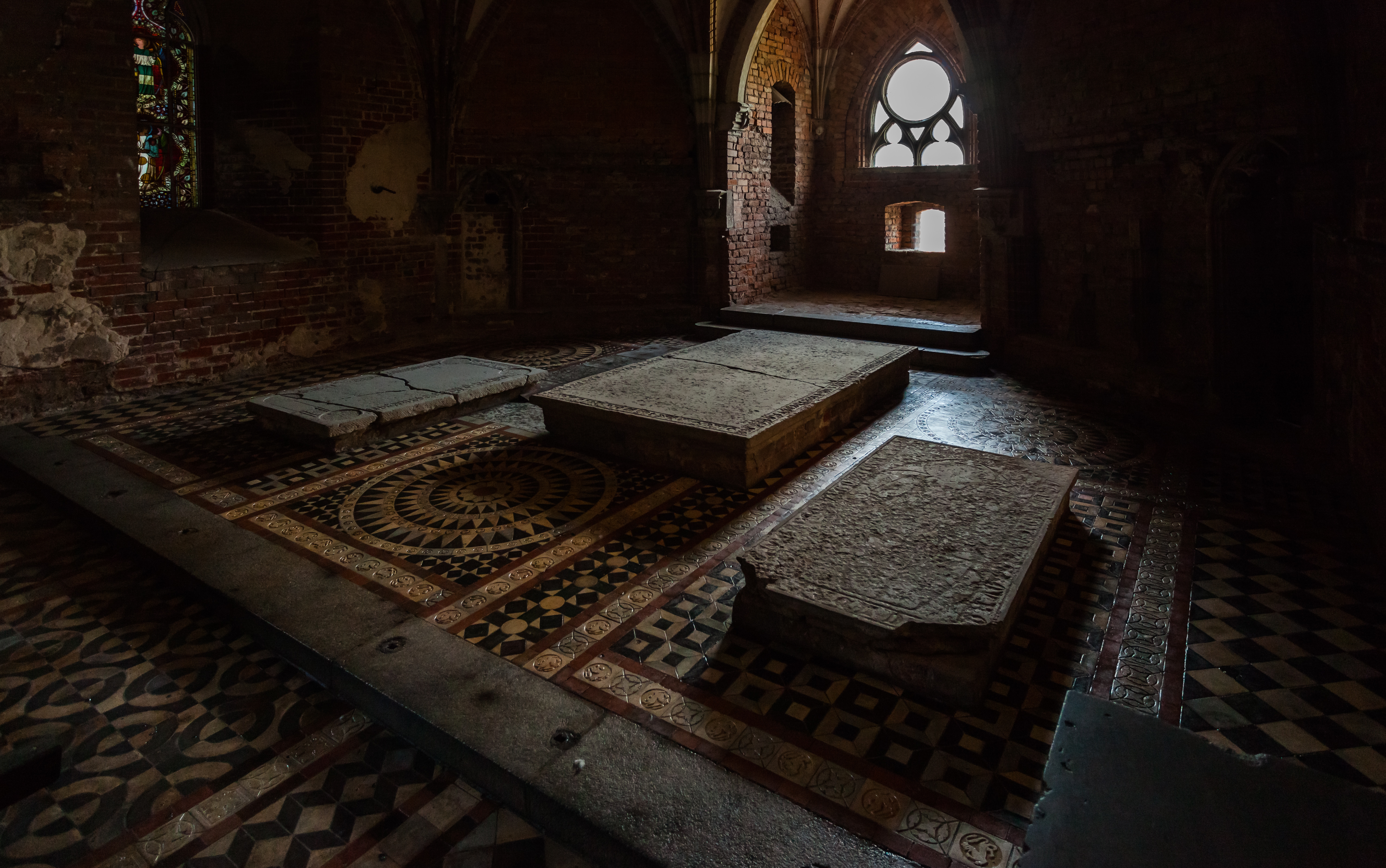 Malbork Castle, Poland